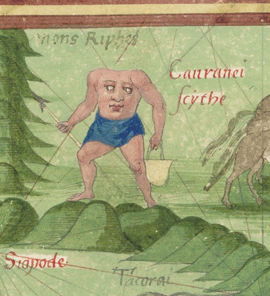 A blemmye, depicted in a map Guillaume Le Testu, Cosmographie universelle (Not labeled in manuscript but given here[1])